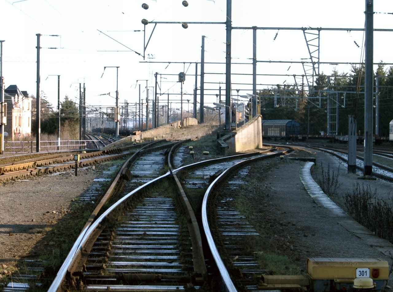 Closed hump in Pétange, Luxembourg.